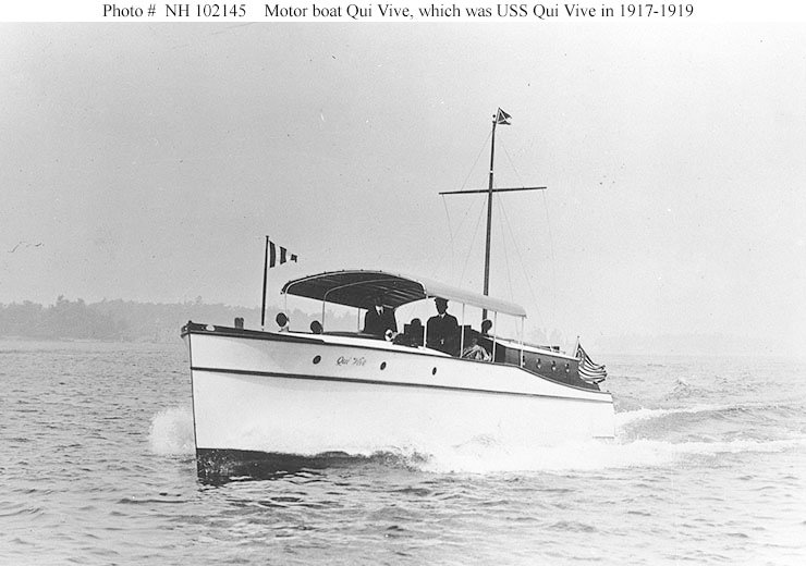 Qui Vive (American Motor Boat, 1916) Underway, prior to World War I. Acquired by the Navy on 22 June 1917, she was commissioned as USS Qui Vive (SP-1004) and served as a hospital boat at Norfolk, Virginia. She was returned to her owner on 7 June 1919.